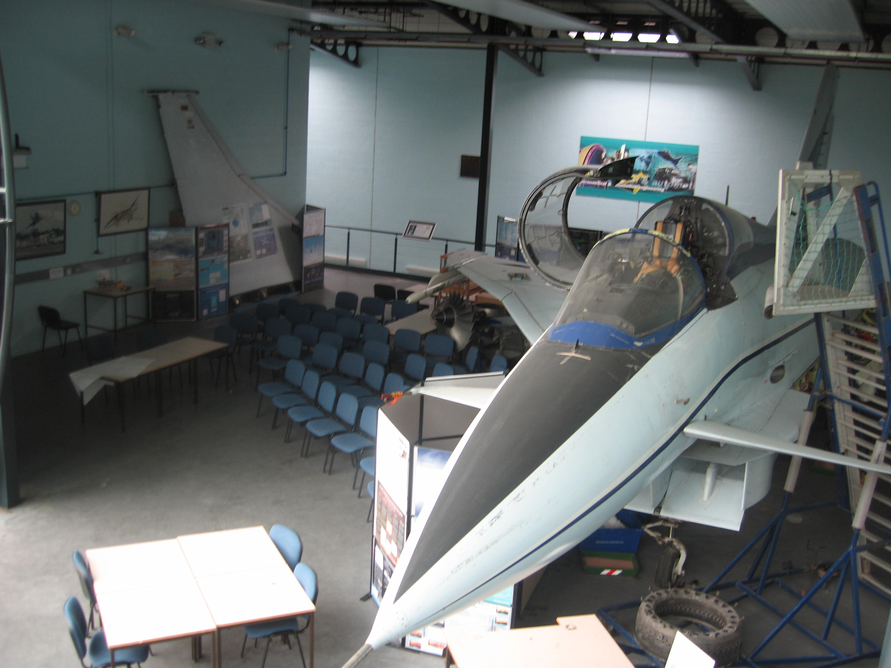 Taken by user - British Aerospace EAP in the Department of Aeronautical and Automotive Engineering at Loughborough University on 16 June 2006.